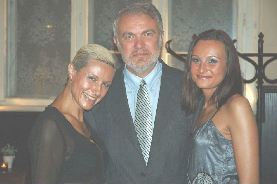 Tamara Voice with her husband and daughter